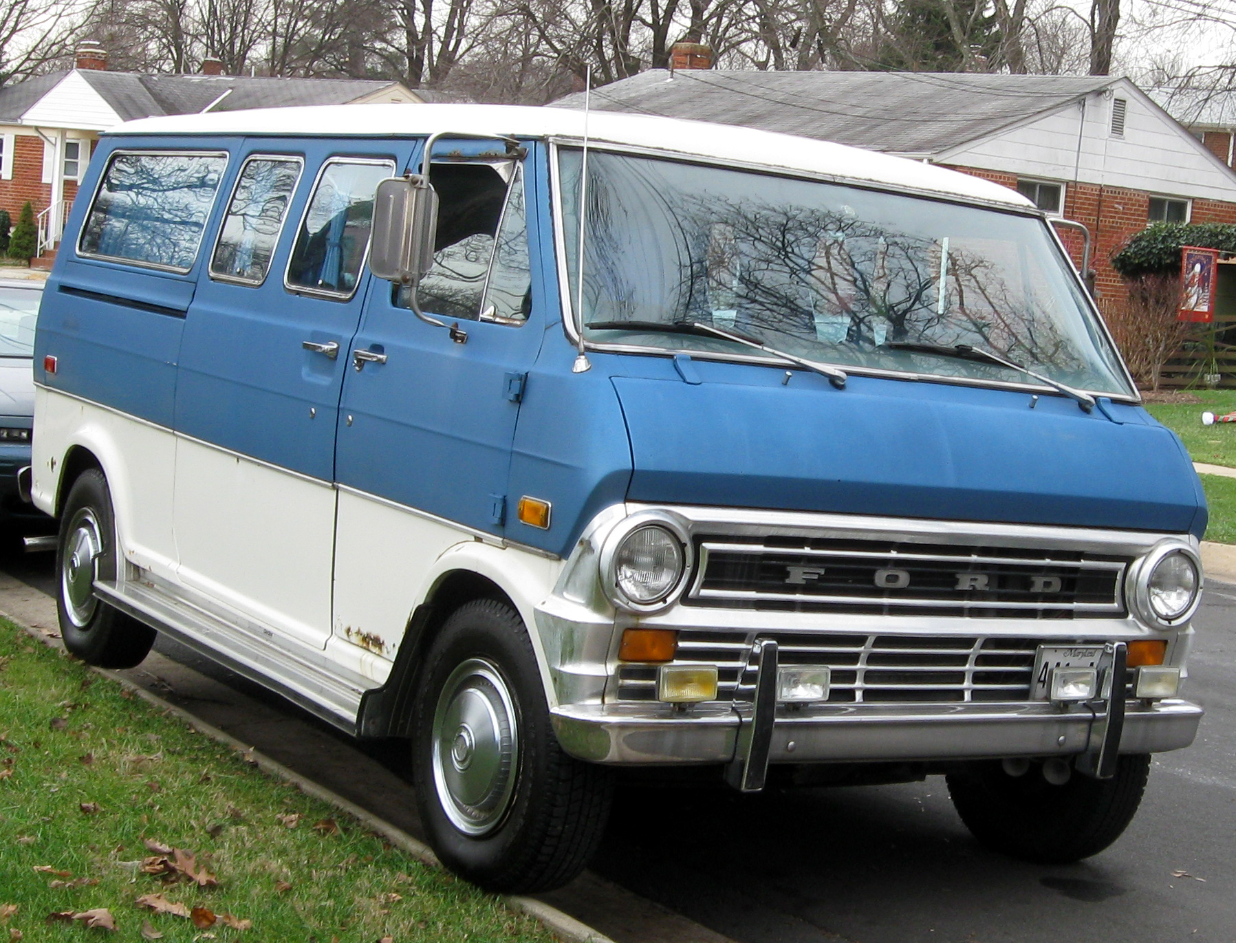 1972-1974 Ford Club Wagon photographed in Rockville, Maryland, USA.